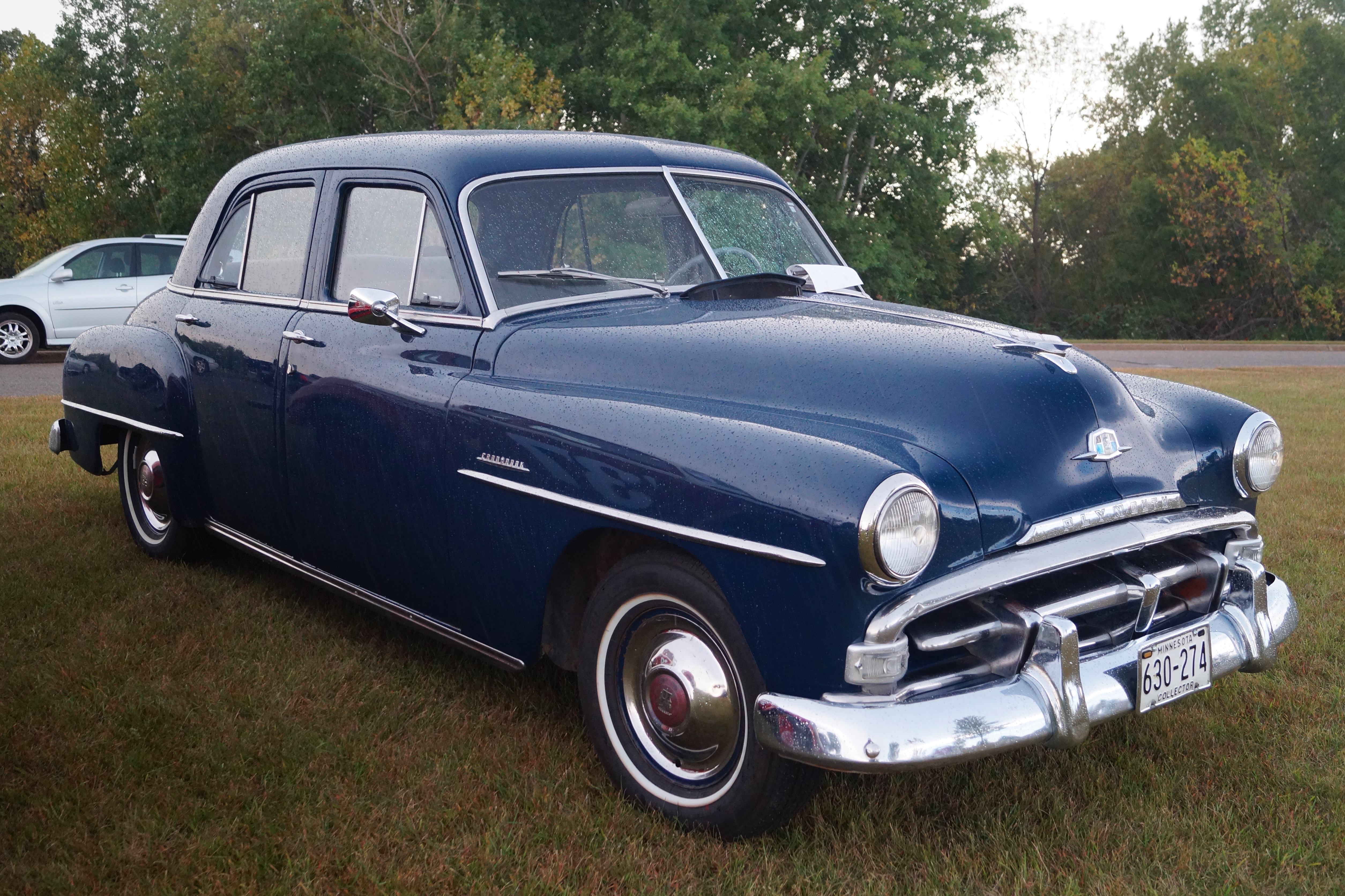 A&W Cruise Night September 2015 A&W Country Stop New London, Minnesota Click here for more car pictures at my Flickr site.